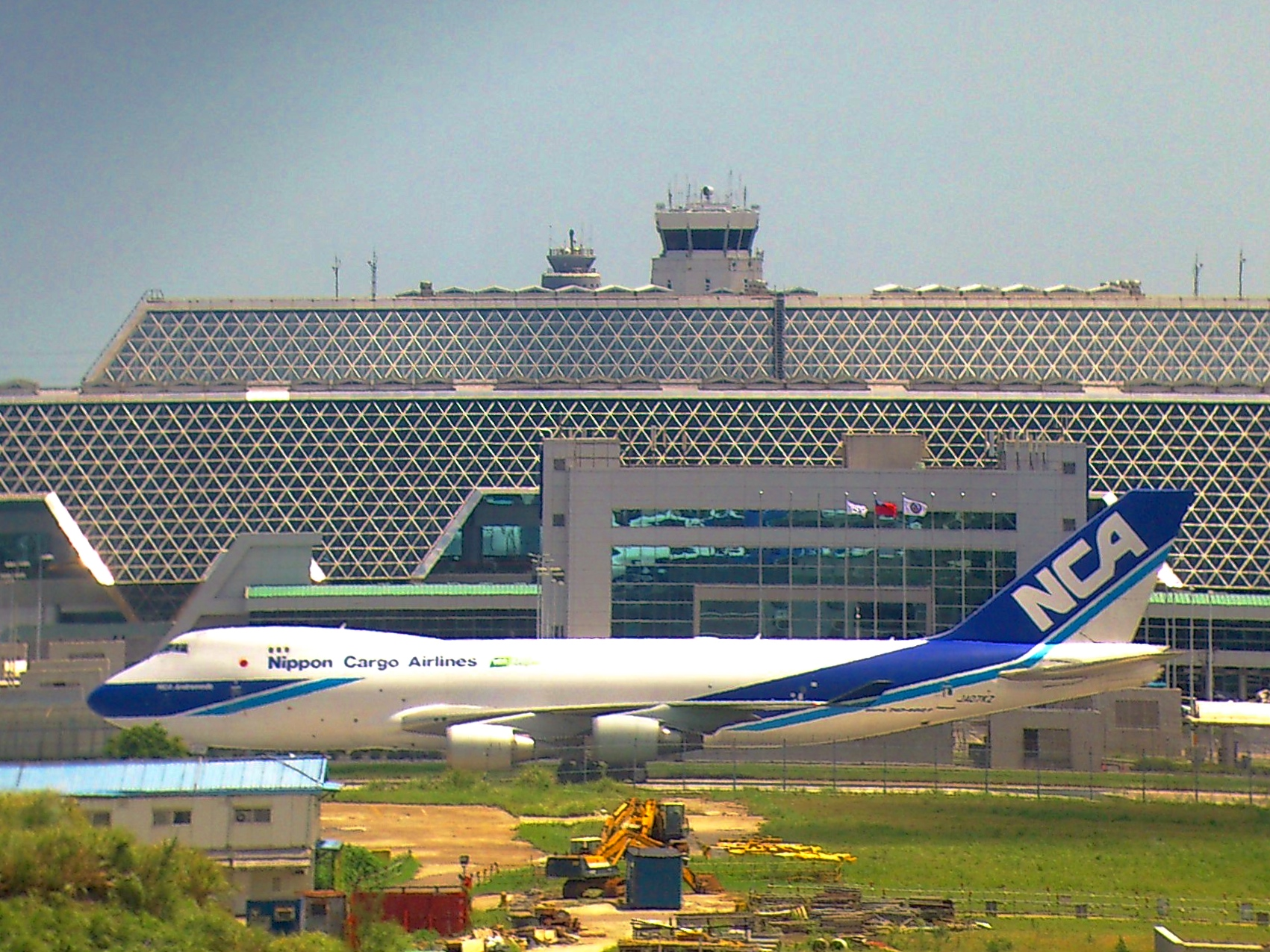 Nippon Cargo Airlines Boeing 747-400F